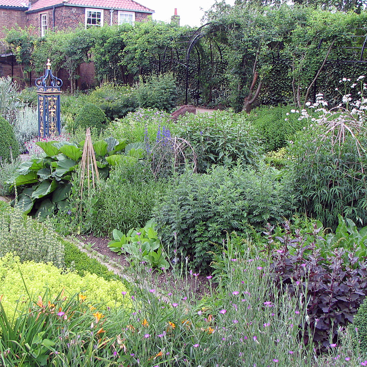 Nosegay garden in Kew gardens